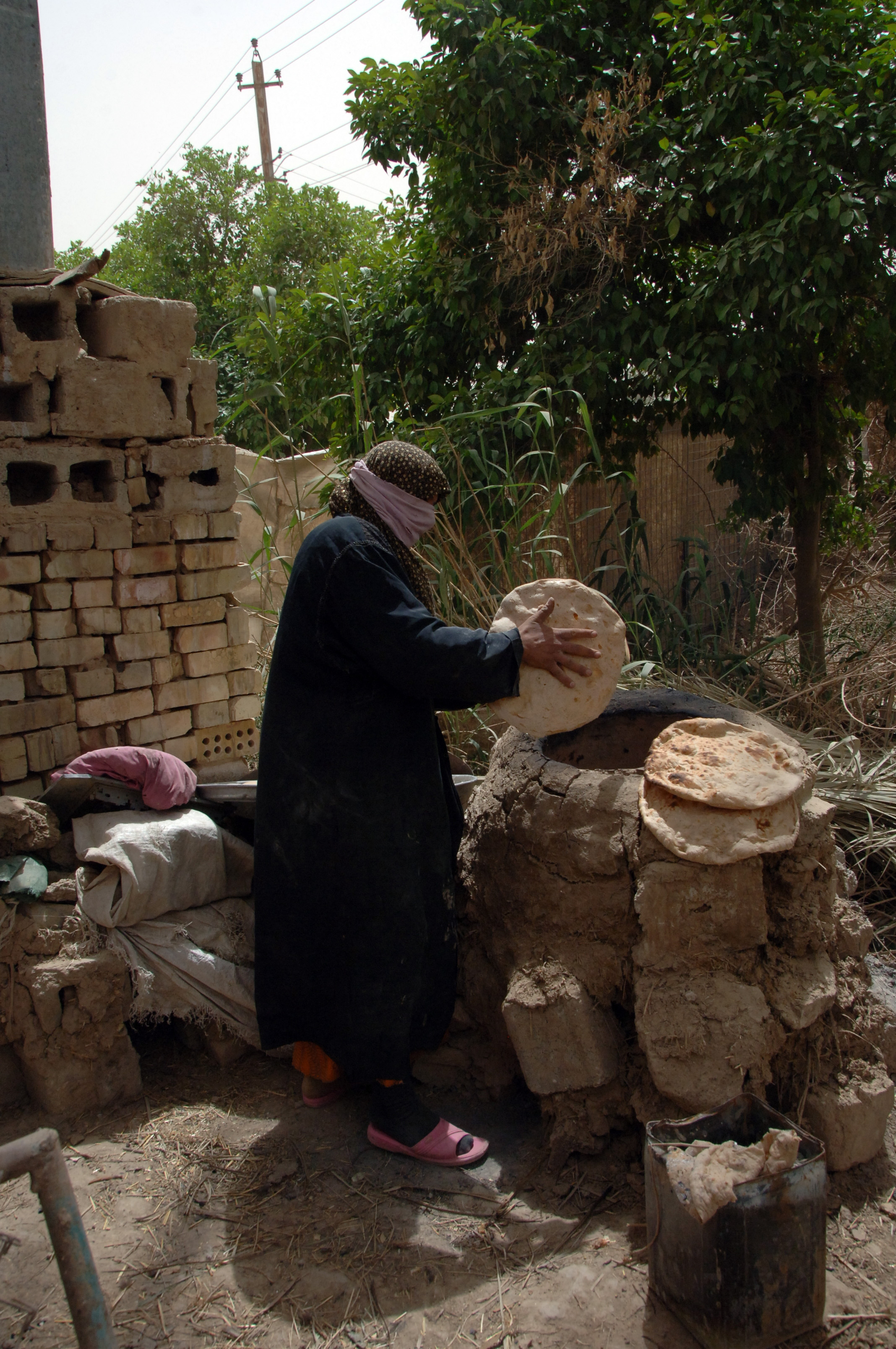 An Iraqi woman bakes flat bread for a luncheon her family is hosting for US Army personnel from Outpost Gator. Minari Village near Iskandariyah, Babil Province, Iraq.